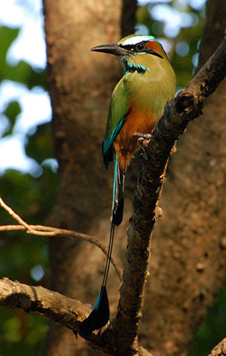 © Leonardo C. Fleck